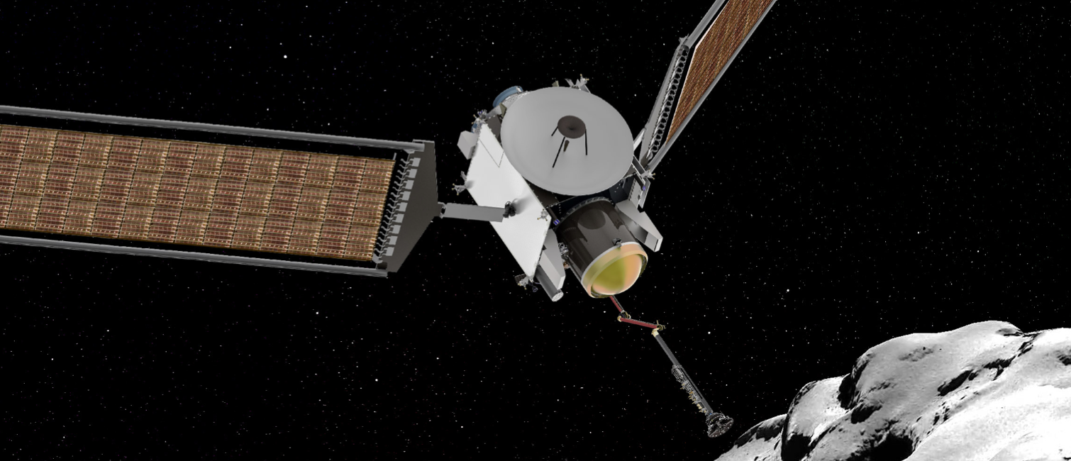 Artist's concept of CAESAR ( Comet Astrobiology Exploration Sample Return) obtaining a sample from comet Gerasimenko for its return and analysis on Earth. The solar arrays will be raised into a Y-shaped configuration to minimize the chance of dust accumulation during contact and provide more ground clearance in case the spacecraft tips over during contact.